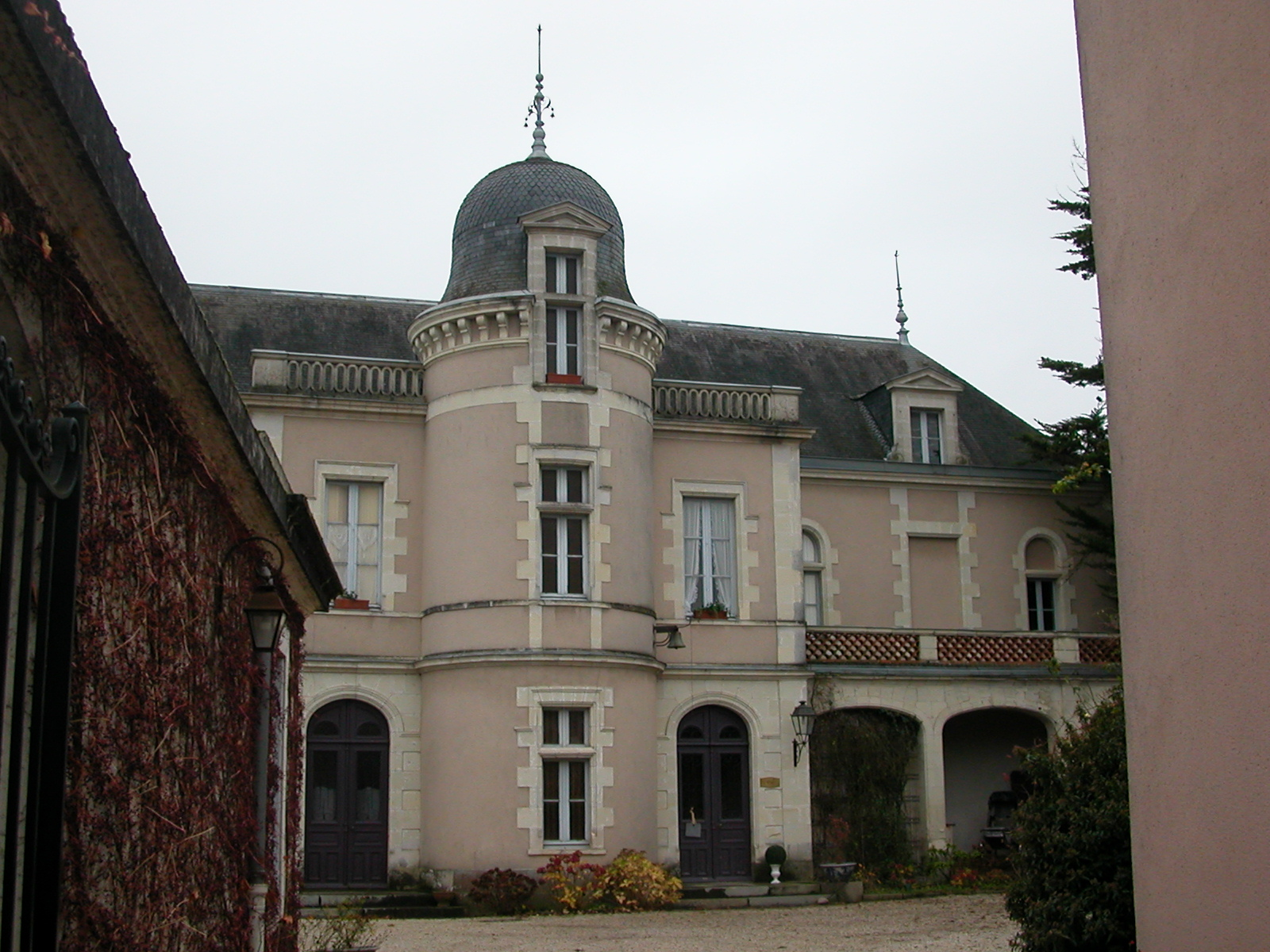 Château du Bourg in Varades